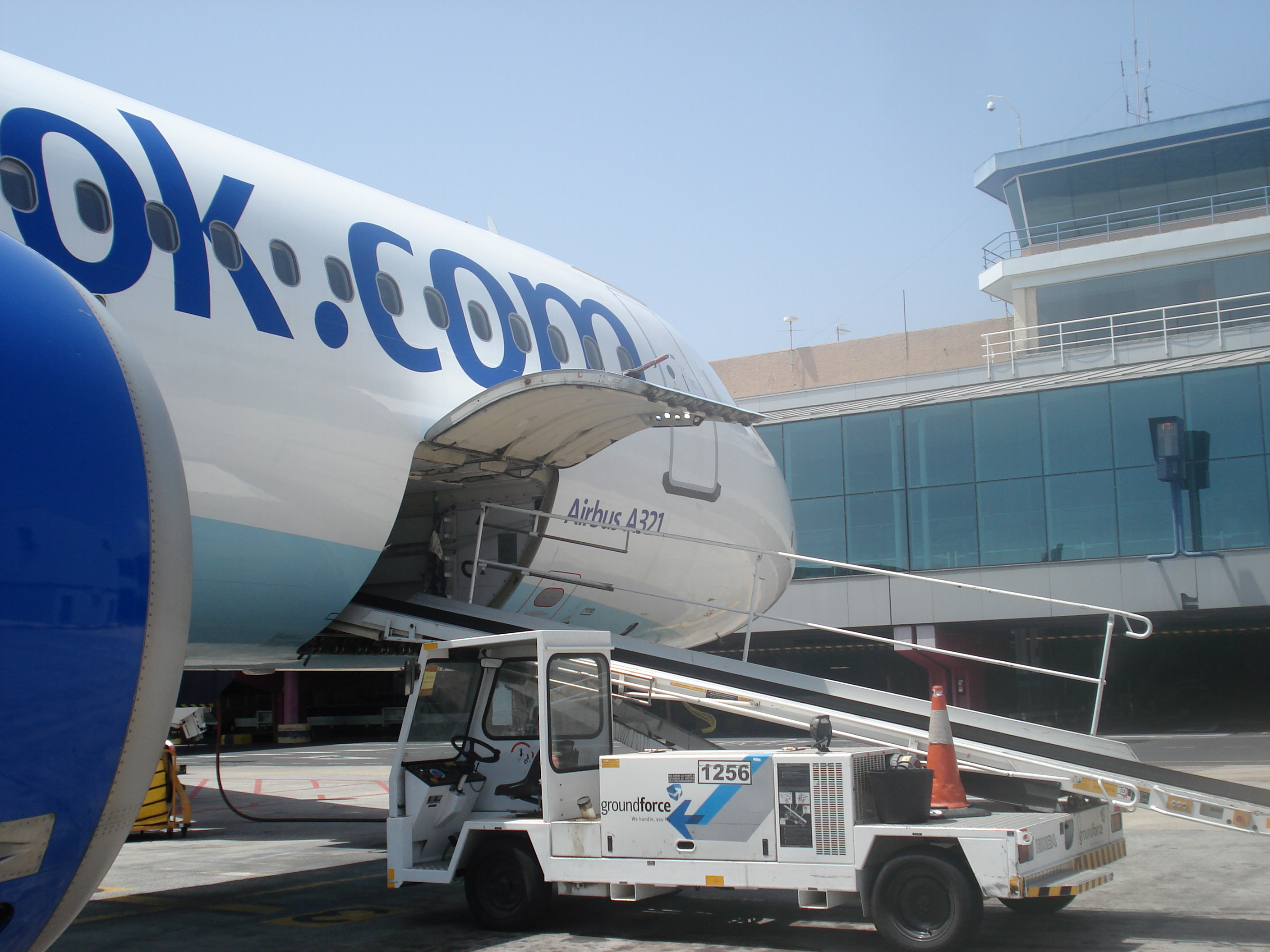 Belt baggage loader at Tenerife South Airport